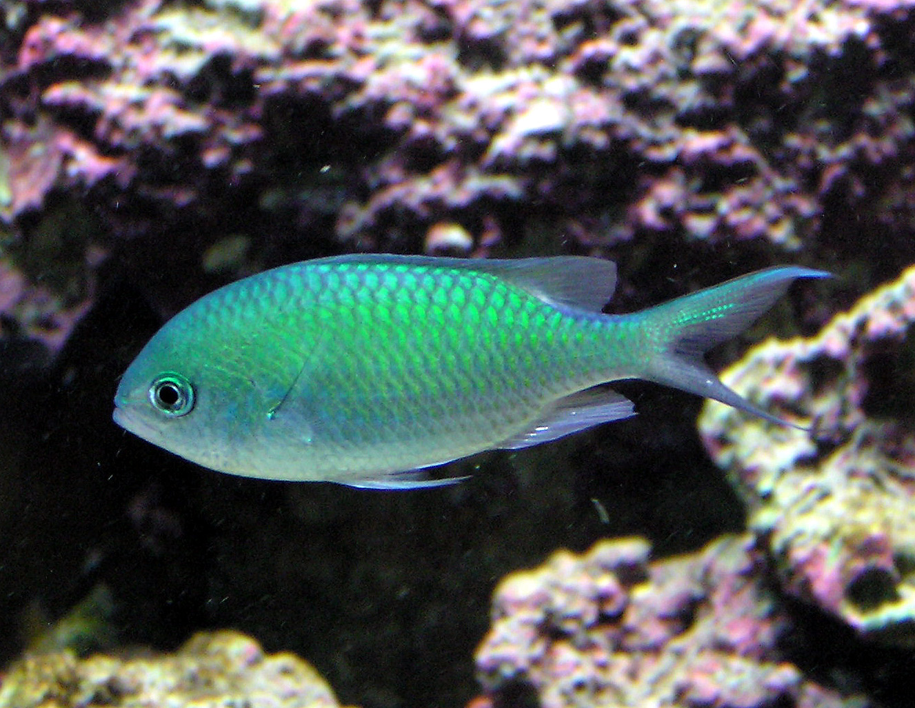 Green chromis fish (Chromis viridis) at Bristol Zoo Aquarium, England.